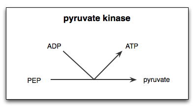 Pyruvate kinase is an enzyme involved in glycolysis. It catalyzes the transfer of a phosphate group from phosphoenolpyruvate (PEP) to ADP, yielding one molecule of pyruvate and one molecule of ATP.